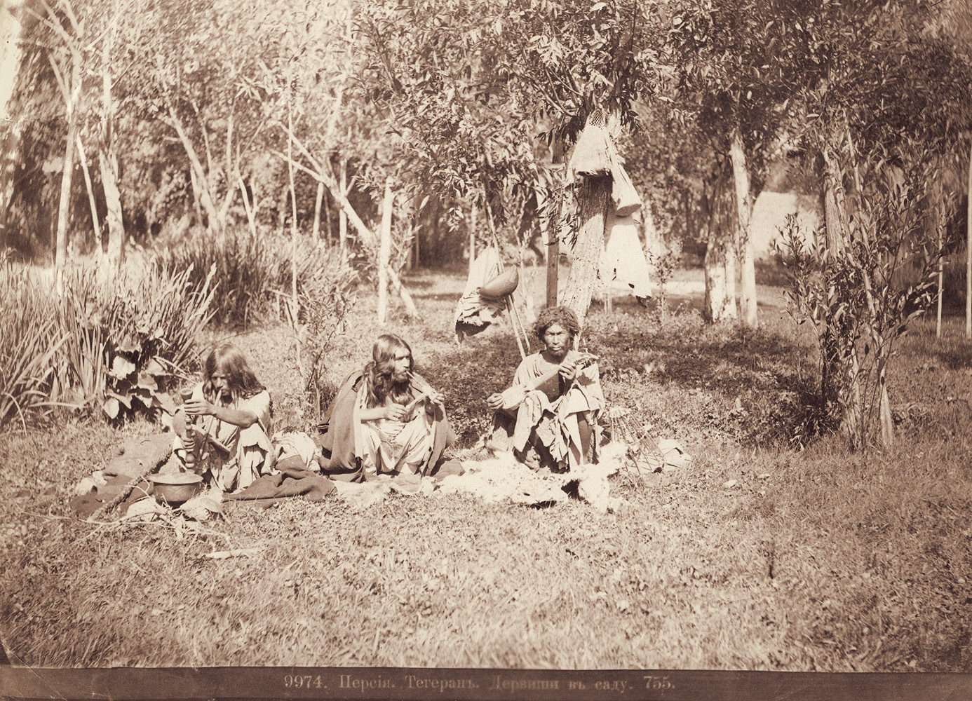 Ermakov. № 9974. Persia. Tegeran. Dervishes in the Garden. 755. (1870s).